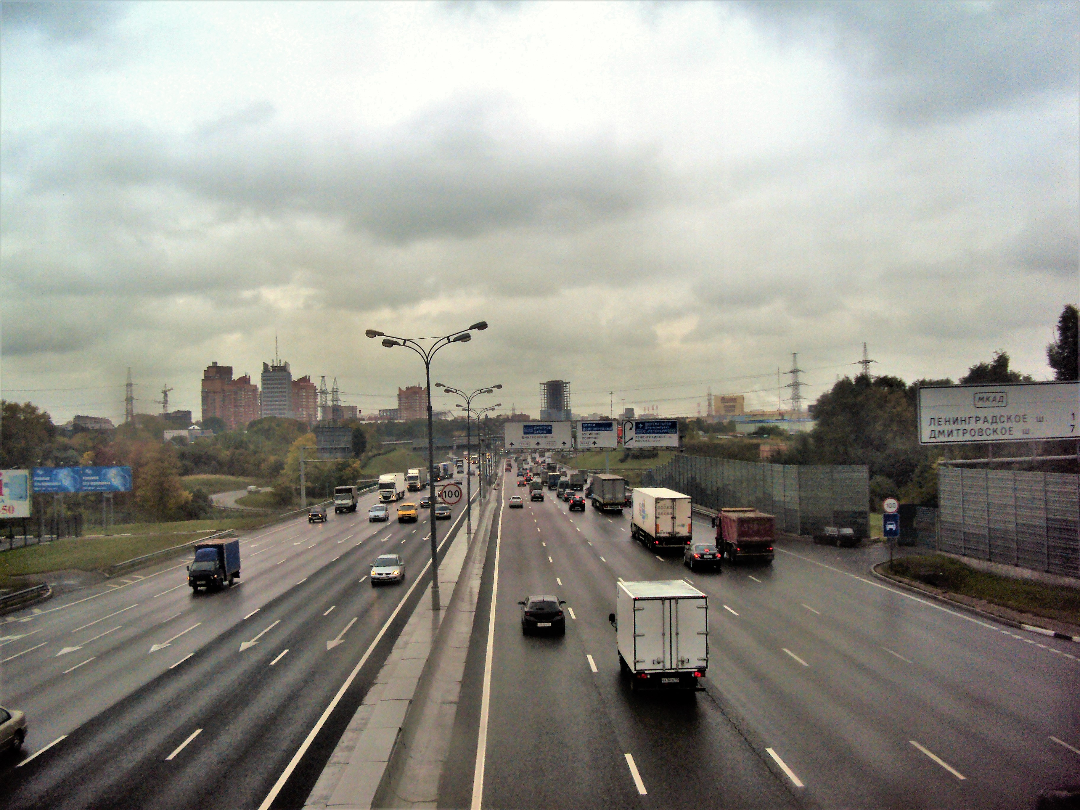 MKAD in the area busstop Novobutakovo.